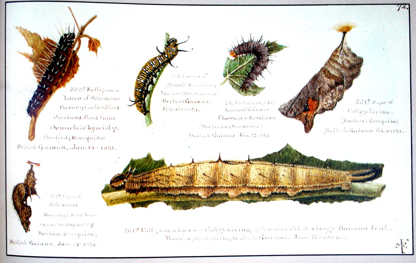 Chrysalids and larvae of butterflies from British Guiana